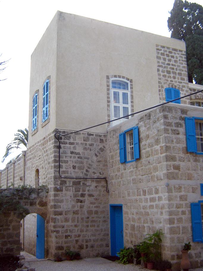 View of the Mansion of Mazra'ih, where Baha'u'llah lived for some time. Taken by me during a 9-day pilgrimage in November 2006.